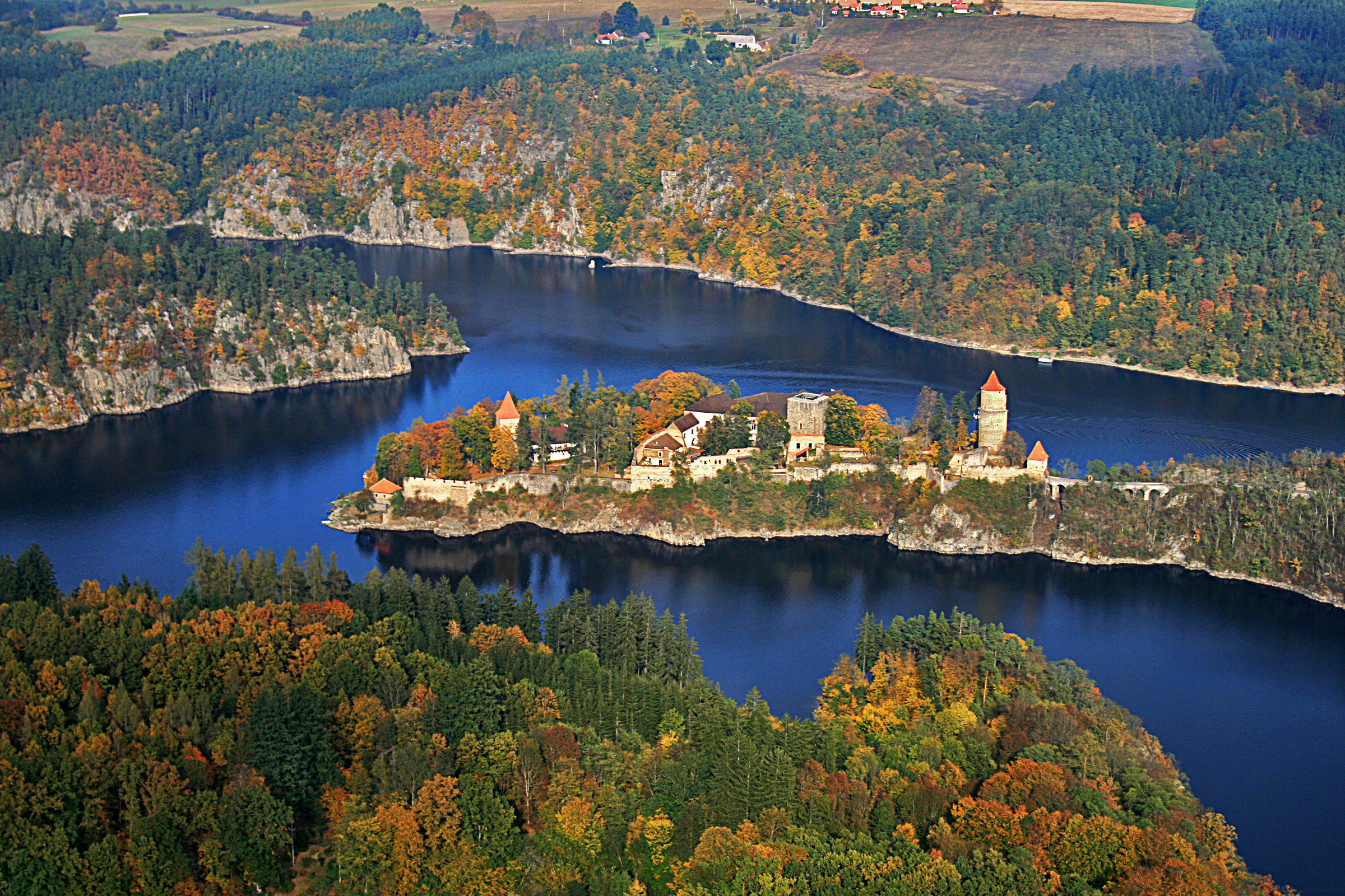 Air photo of Zvíkov Castle on Orlík dam on Vltava river, the Czech Republic